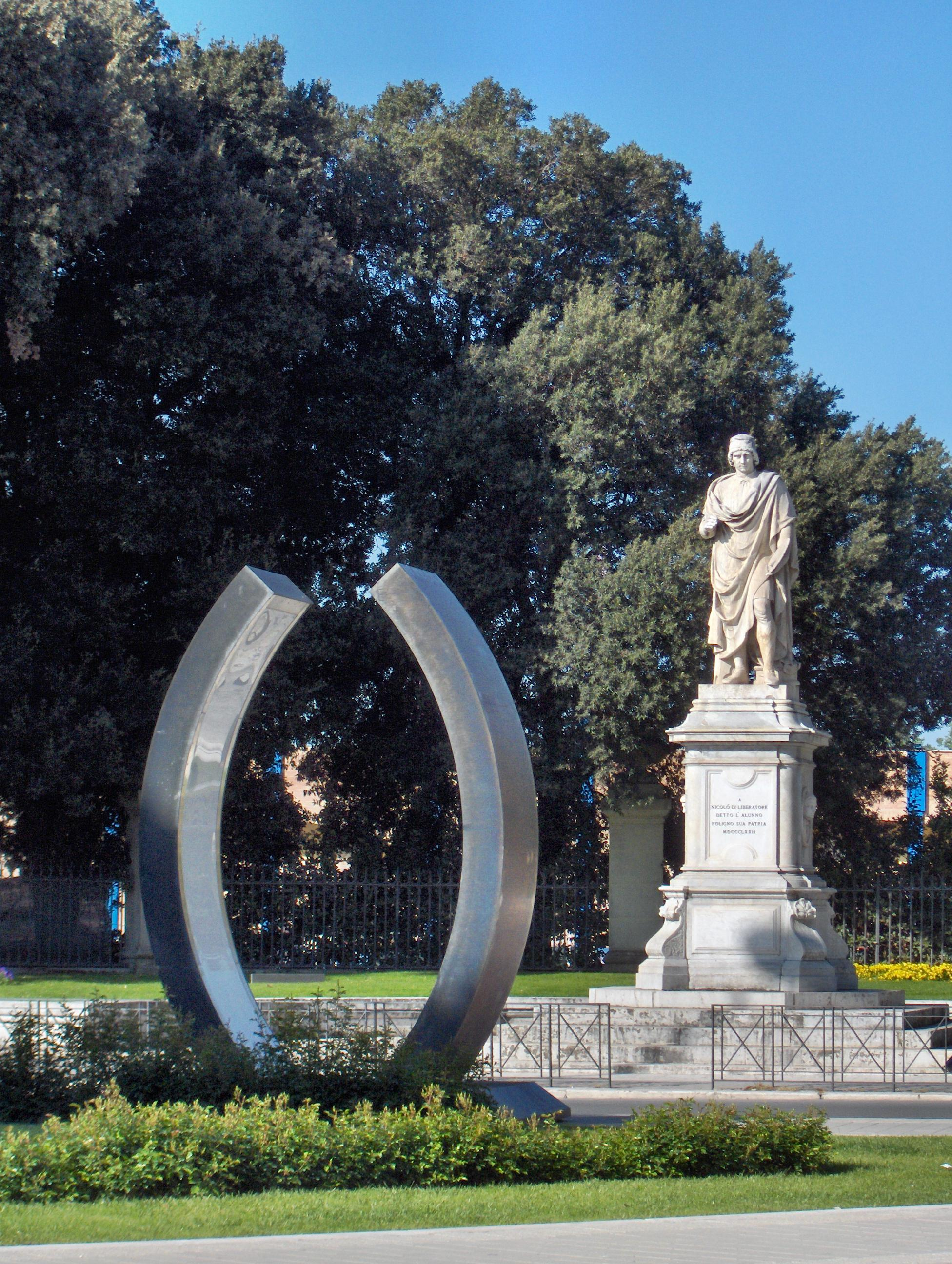 Statue of the painter Niccolò di Liberatore, better known as Alunno (1430-1502); Foligno, Italy